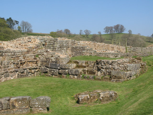 Tower at the eastern abutment of Willowford Bridge A tower, containing much reused material, was built (in the late second or early third century) at the point where the Broad Wall was reduced to Narrow. In the centre of the tower is a stone base, probably to support an upper floor. {Source: "Handbook to the Roman Wall" (14th Edition) by J Collingwood Bruce.}